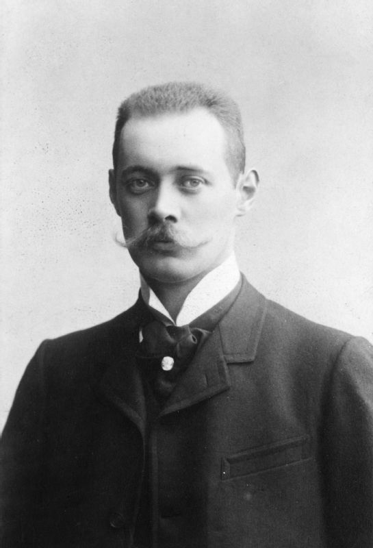 Photograph of the Finnish architect Birger Federley (1874–1935).